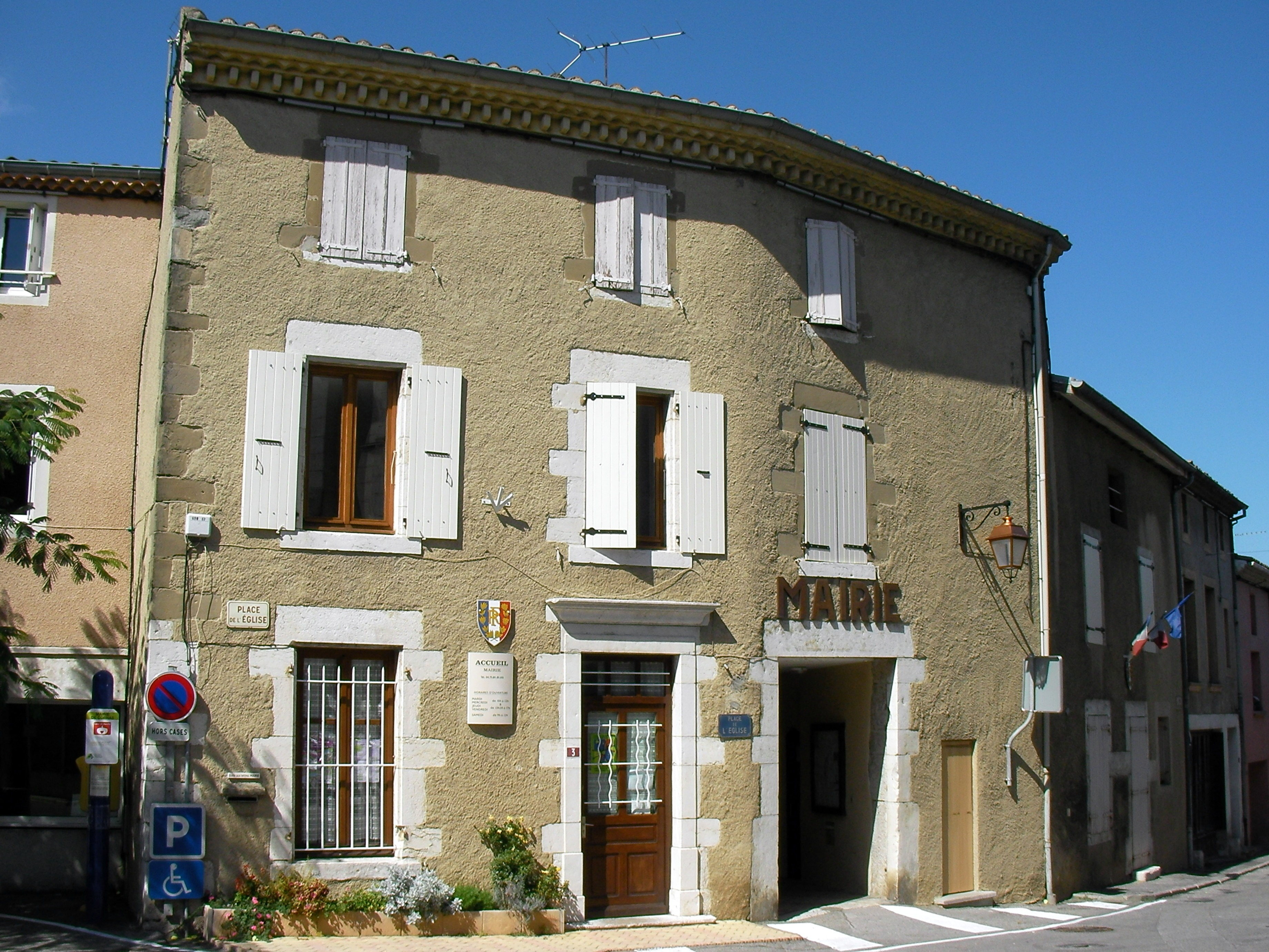 Town hall of Cornas (Ardèche/France)